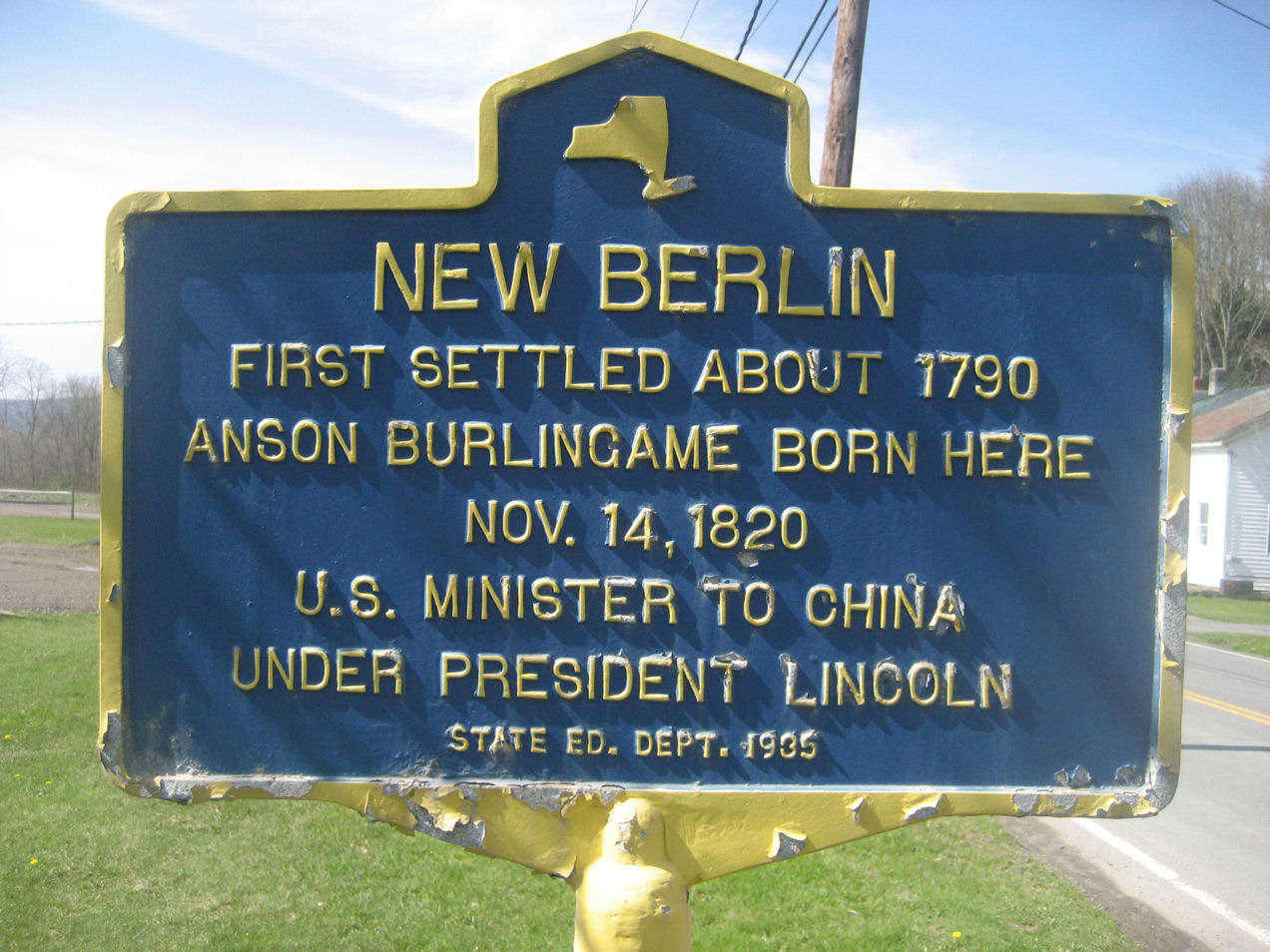 Historic marker of New Berlin, NY, first settled about 1790. Anson Burlingame was born here, Nov. 14, 1820. He was the US Minister to China under President Lincoln.